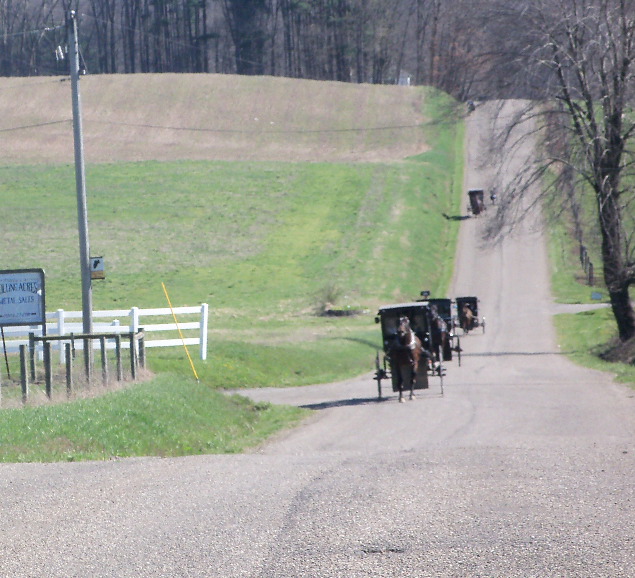 Amish traffic in Augusta Township, Carroll County, Ohio on a sunday afternoon.